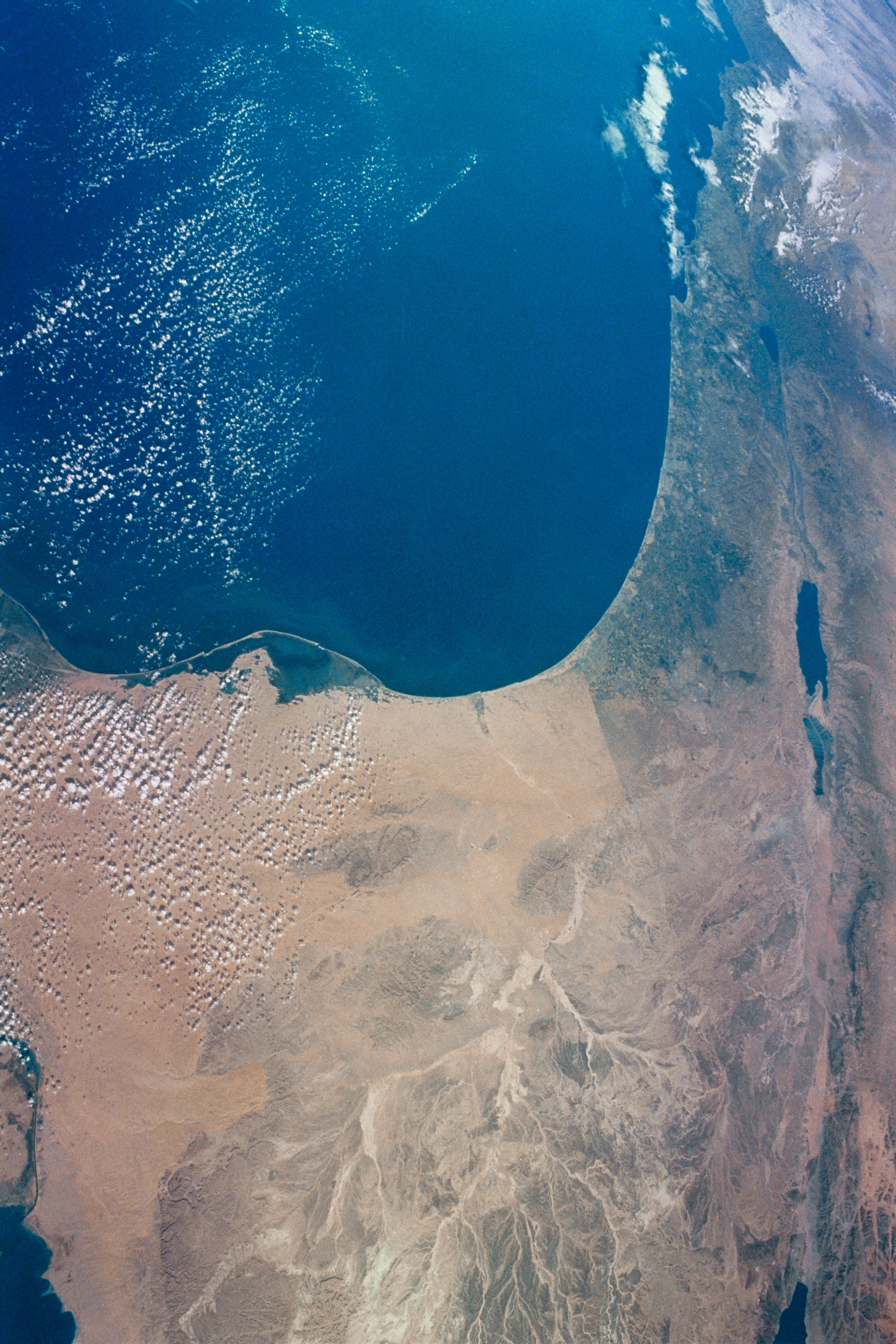 This view is featuring the southeastern Mediterranean and the borders of the region between Egypt, Sinai Peninsula and Israel. It was photographed by an STS-107 crewmember onboard the Space Shuttle Columbia. EDITOR’S NOTE: On February 1, 2003, the seven crewmembers were lost with the Space Shuttle Columbia over North Texas. This picture was on a roll of unprocessed film later recovered by searchers from the debris.